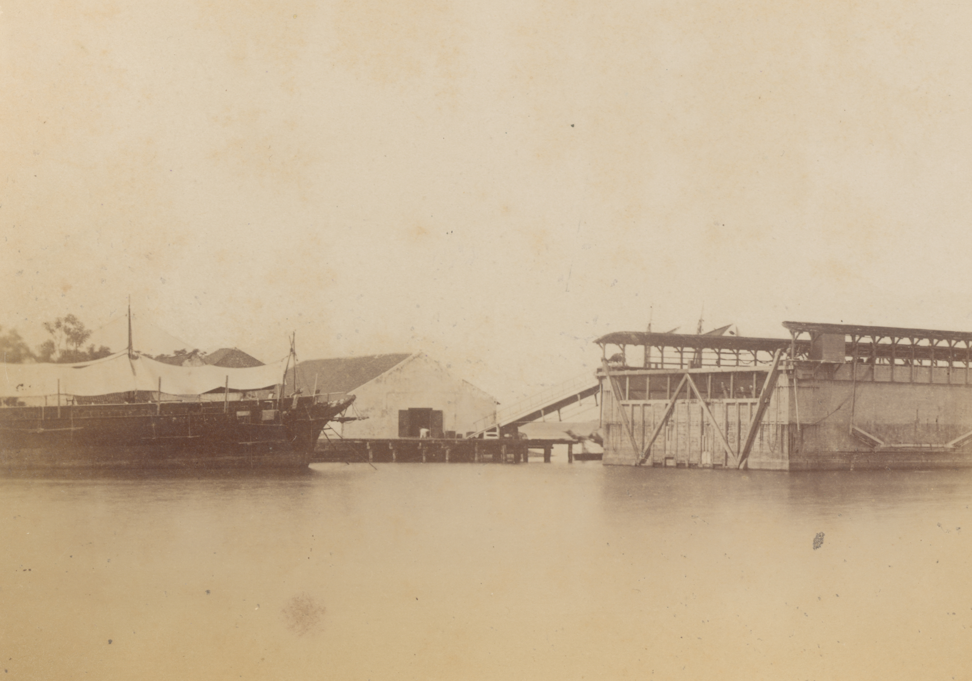 P. Harting collected photographs for an album that he offered to D. de Wilde in 1877. The passing of photographer W.J. Olland, father in law of De Wilde, was the occasion. The exact date of the picture is not known